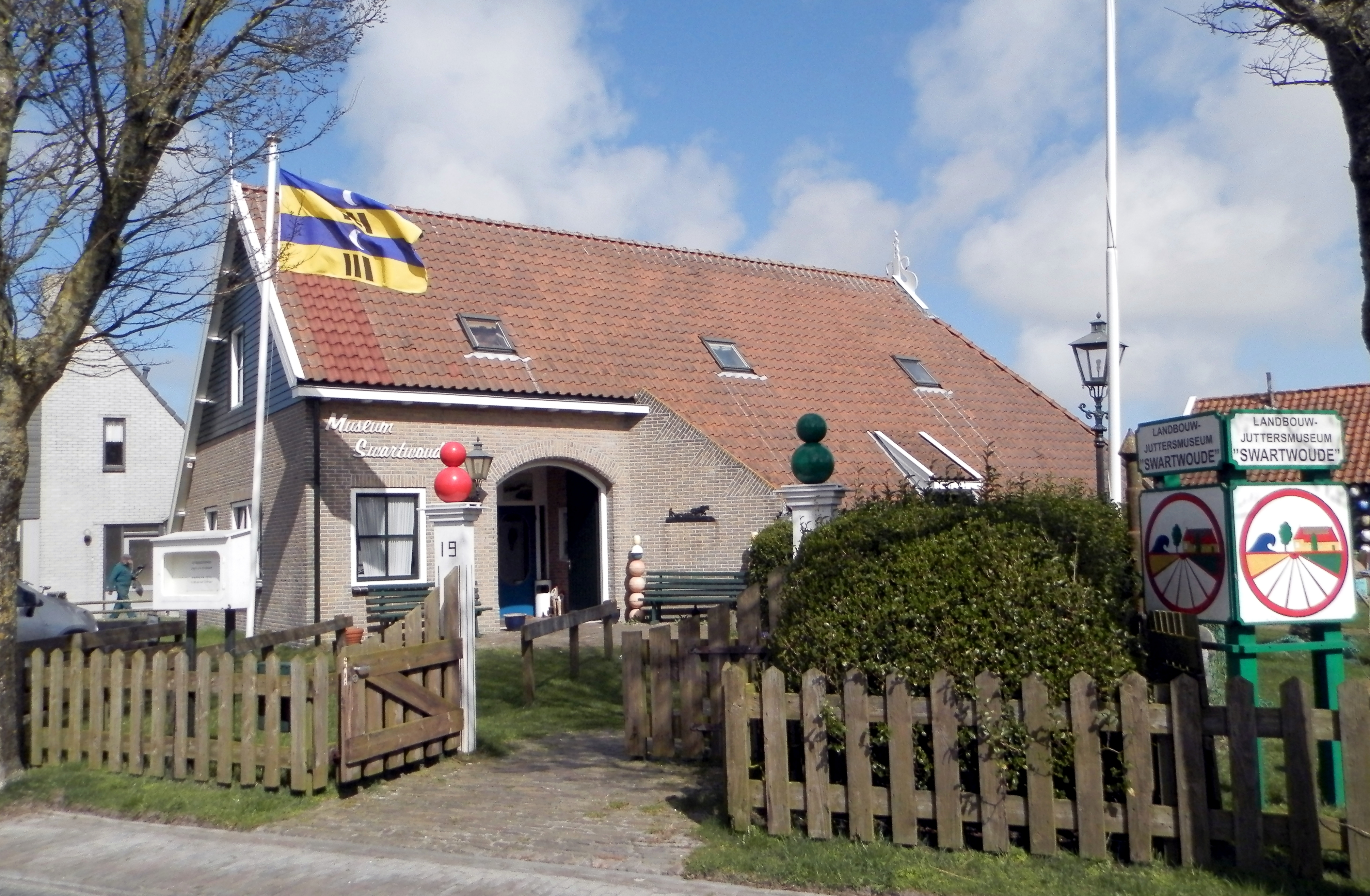 Agriculture and Beachcombing Museum Swartwoude in Buren, Ameland, Netherlands.